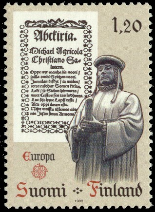 Postage stamp depicting Finnish bishop Mikael Agricola